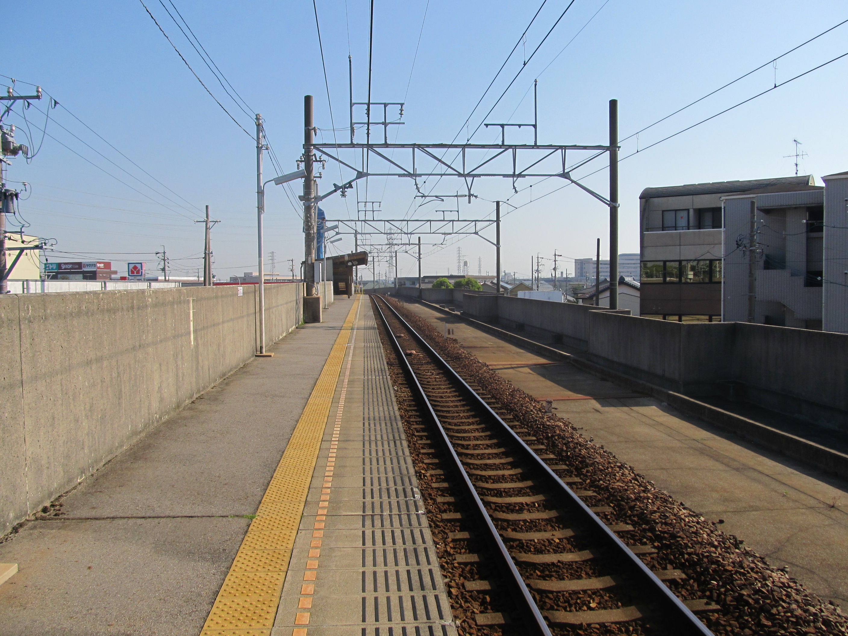 Nagoya Railroad Nishio Line Nishio-guchi Station Platform